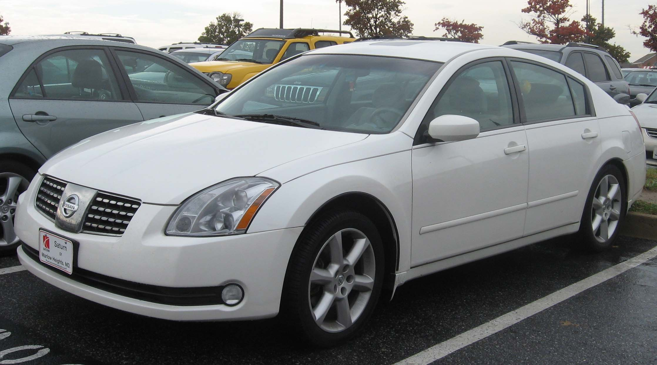 2004-2006 Nissan Maxima photographed in College Park, Maryland, USA.